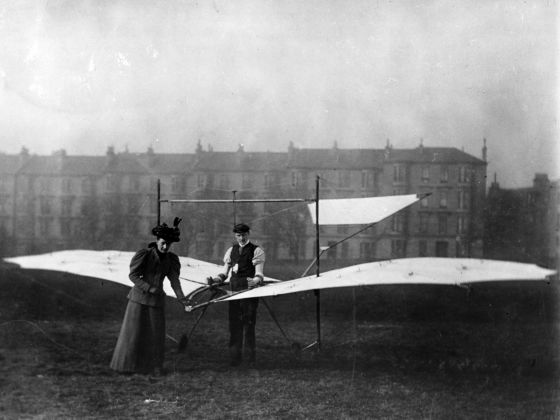 Aviation pioneers Ella and Percy Pilcher with their Hawk glider, Kelvingrove Park, Glasgow, 1896. This was a publicity photograph rather than one taken during a test flight. Photographer unknown. Original photograph in possession of Philip Jarrett.